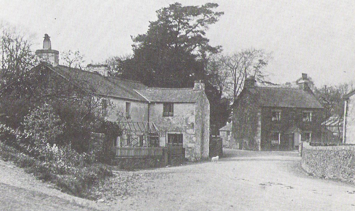 Photo of the main street in Near Sawrey in May 1913